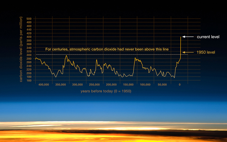 Chart published by NASA depicting the rise of Carbon Dioxide levels from 400,000 years ago to today.